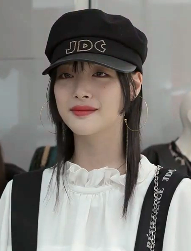 Sulli at Longchamp Boutique Opening Event on December 21, 2018.